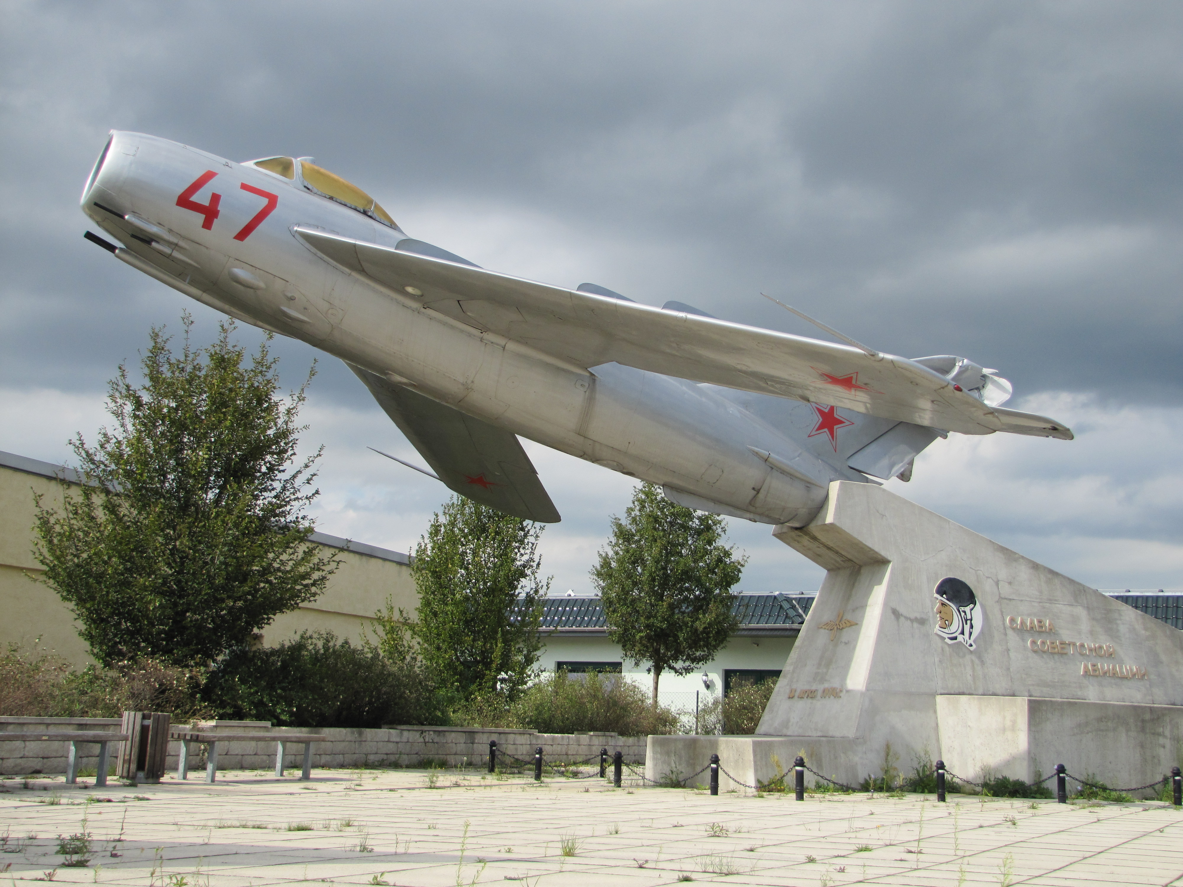 MiG-17 memorial of Soviet Army near Airfield Großenhain (built 1974)